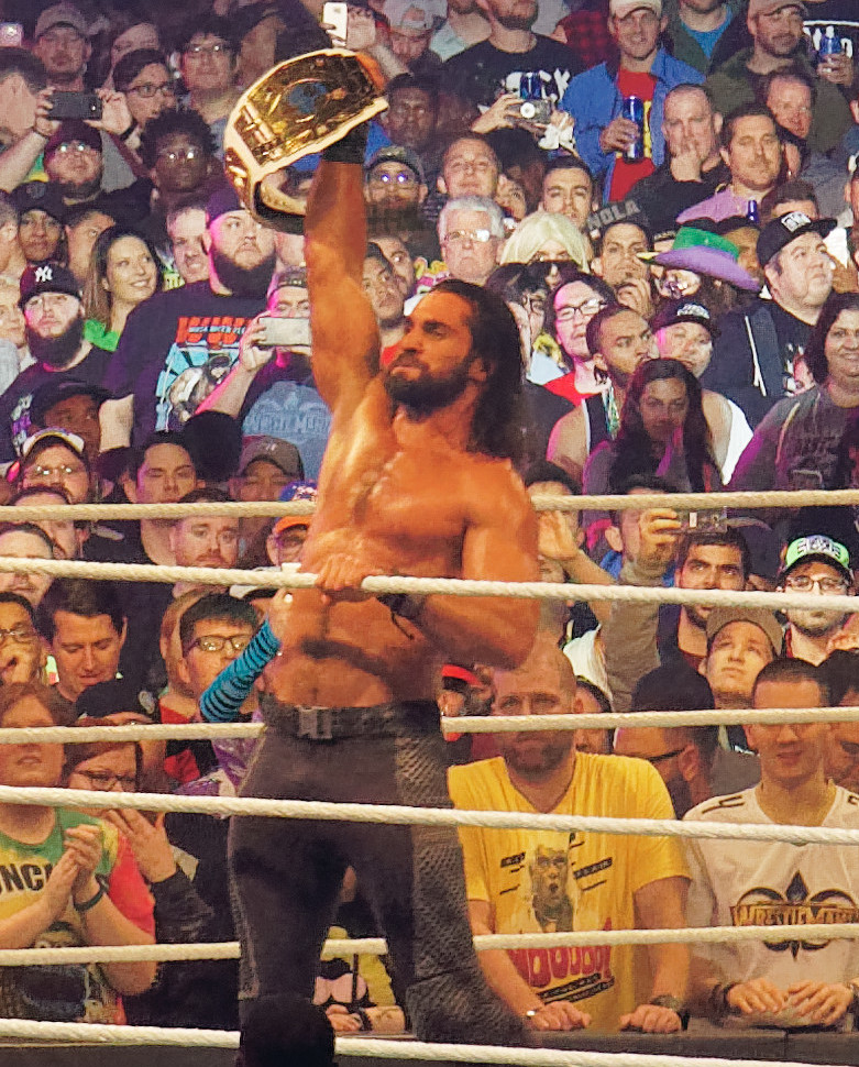 NOLA 2018 - WWE Wrestlemania 34 - Seth Rollins Vs Finn Balor, The MizSeth Rollins def. (pin) Finn Balor, The Miz (c) (in 15:35)Type of match : triple-threatFor : WWE Intercontinental Championship (title change)Rating : ***1/2( Deux semaines a Nola pour la ville et pour WWE Wrestlemania XXXIVTwo weeks Nola for the city and for WWE Wrestlemania XXXIV )